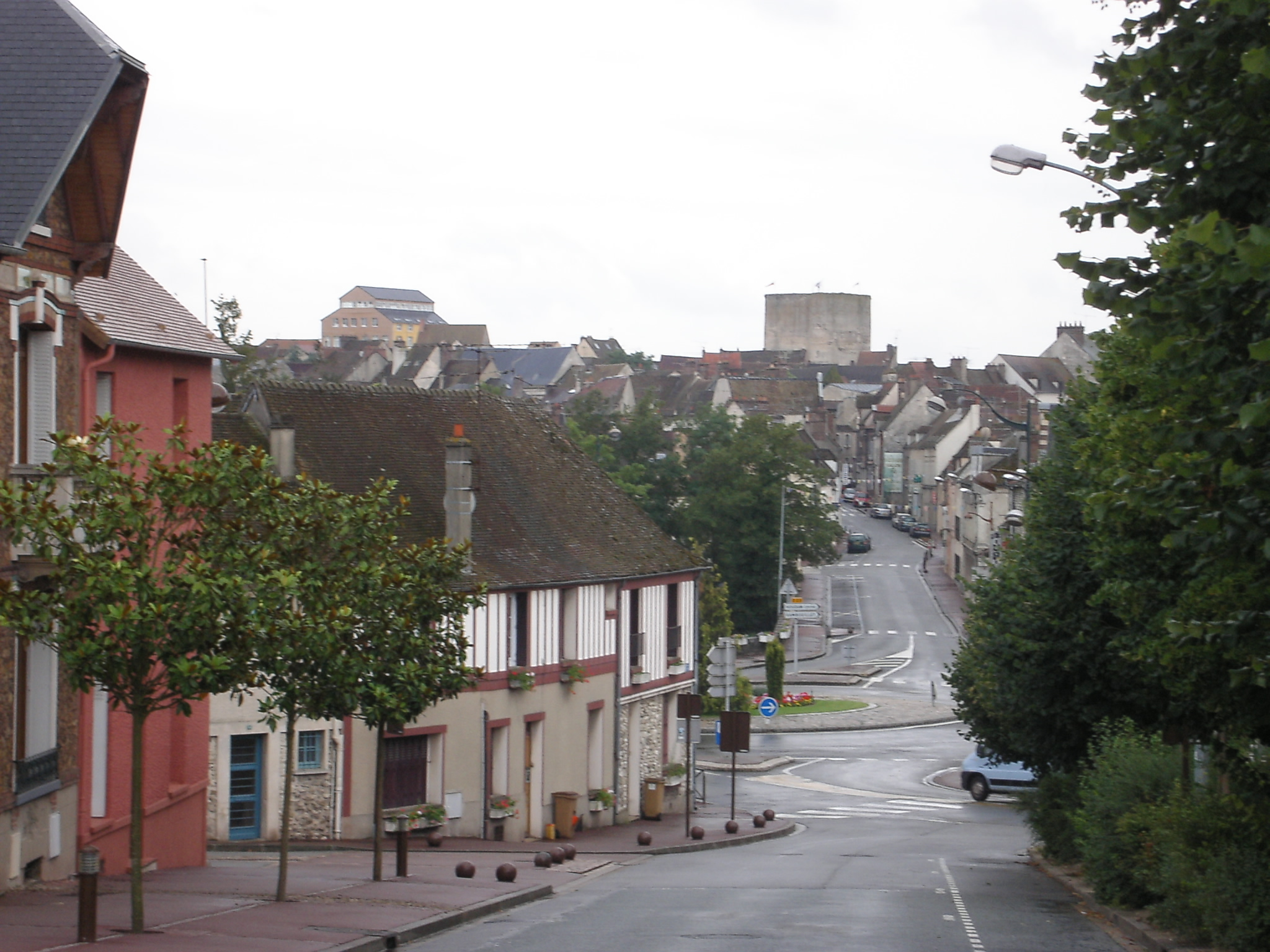 Houdan, seen from the train station.